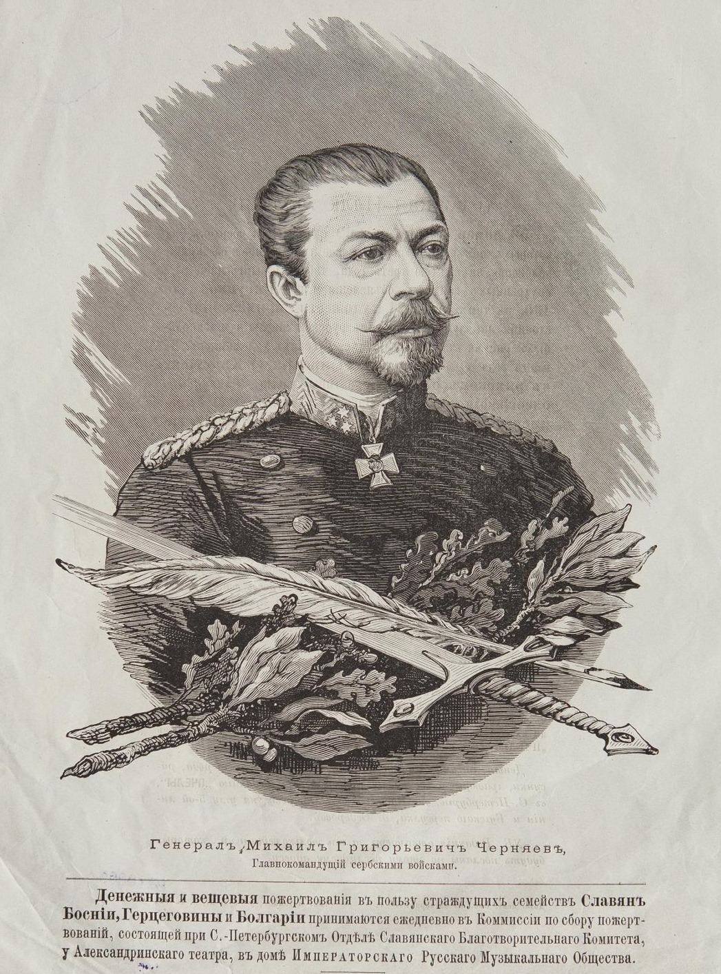 Mikhail Cherniaev (1828-98).